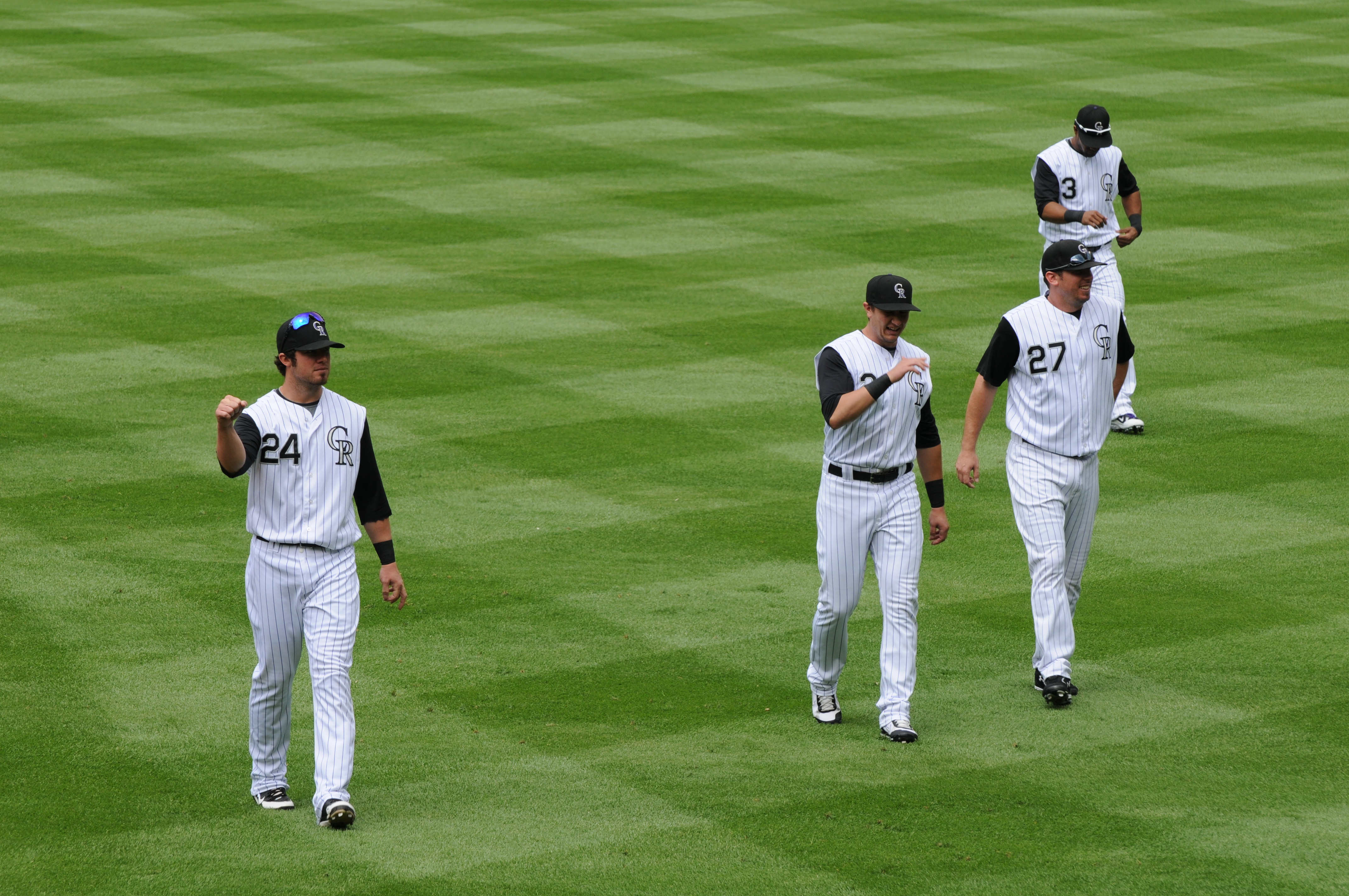 Description own work DateSourceI created this work entirely by myself.AuthorOnetwo1 (talk) 16:08, 8 August 2008 . . Onetwo1 . . 4,288×2,848 (2.97 MB) own work